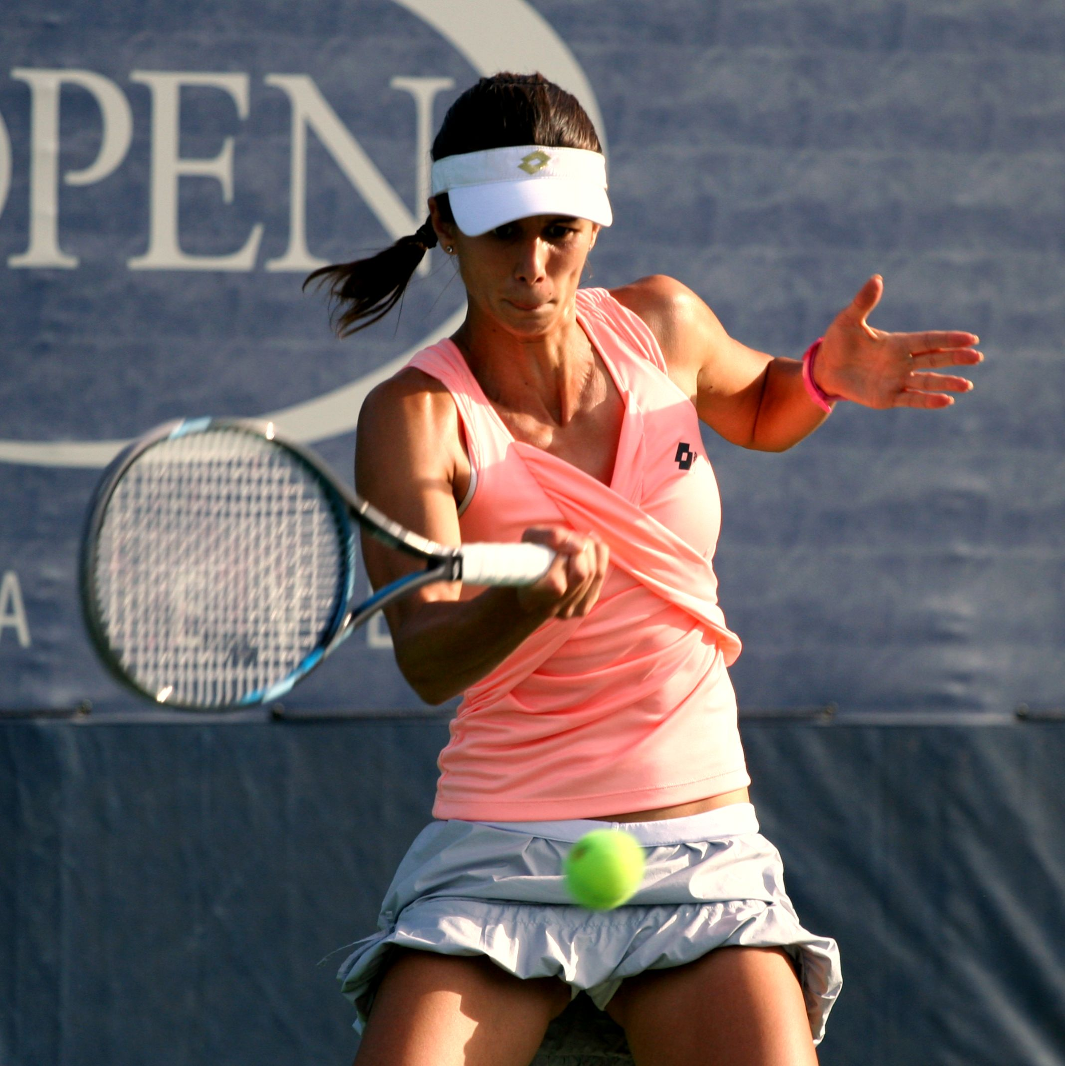 Bulgarian tennis player Tsvetana Pironkova at 2011 US Open.